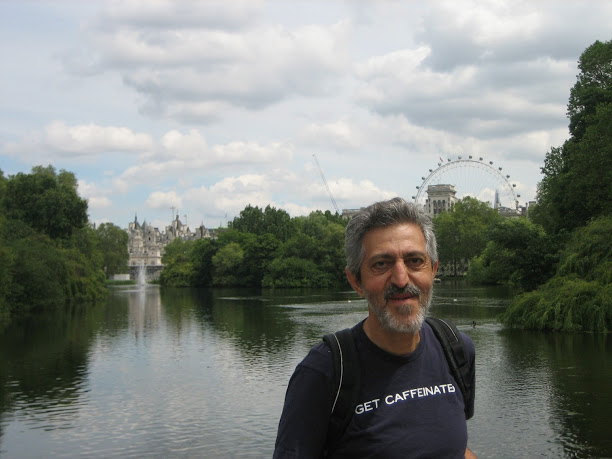 Avi Wigderson